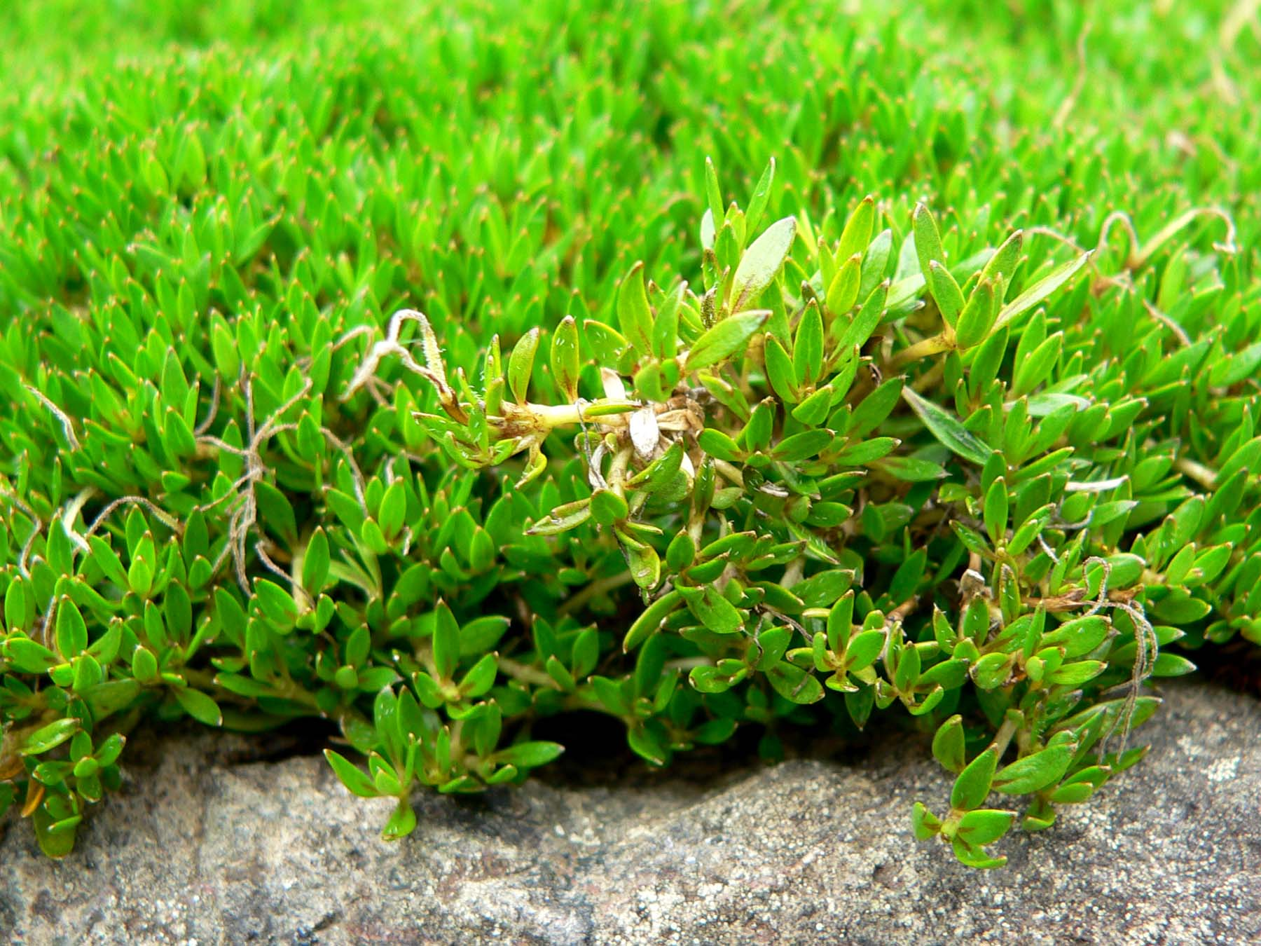 Photo of Coprosma petriei at the UBC Botanical Garden